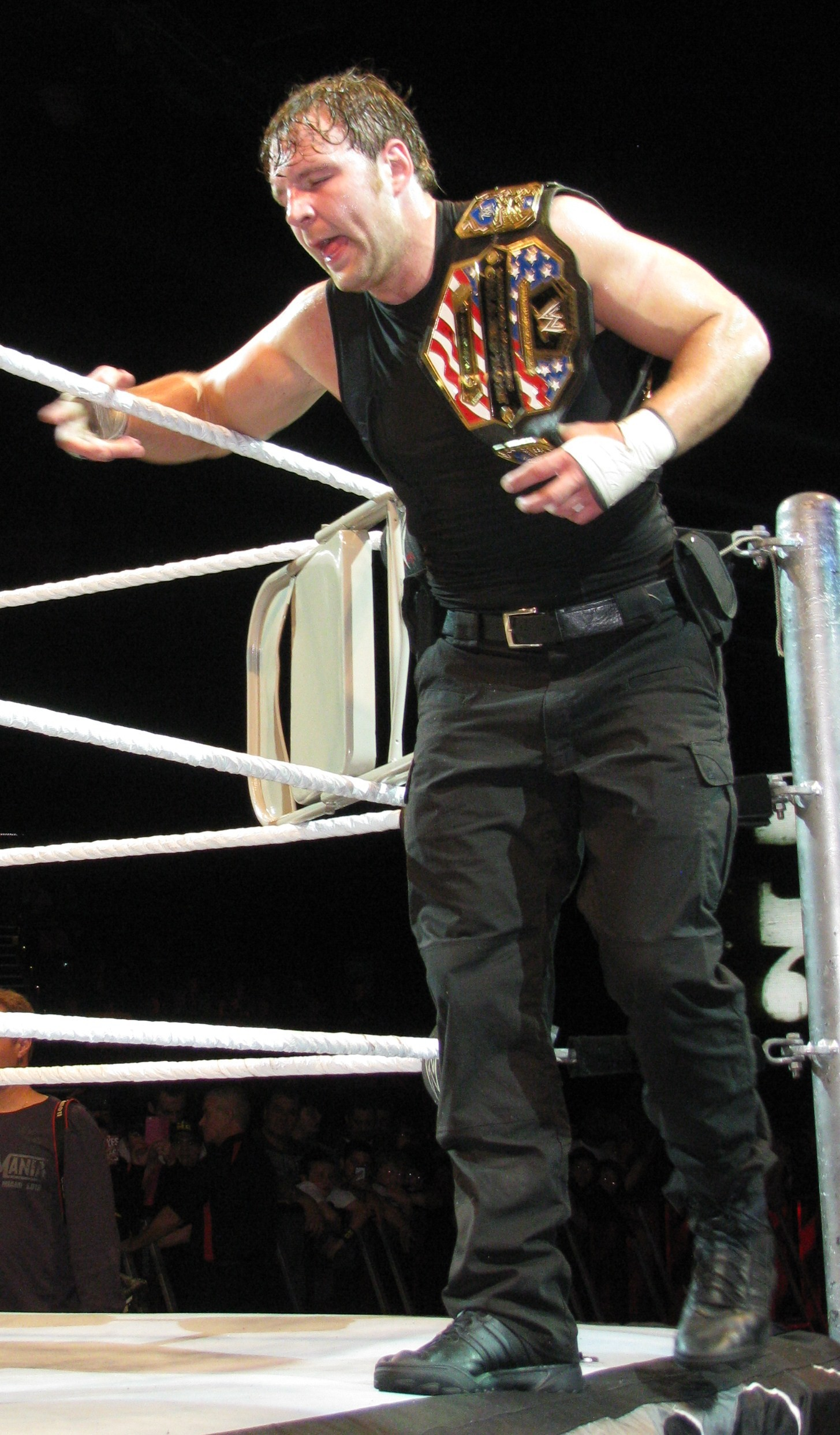 Dean Ambrose @ Adelaide, South Australia WWE house show on the 29th of July '13